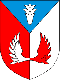 Coat of arms of the town of Lakhva in Belarus.